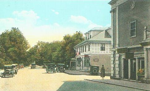 York Street, York Harbor, ME; from a c. 1922 postcard. The Lancaster Building (right) was designed by E. B. Blaisdell and built in 1895.